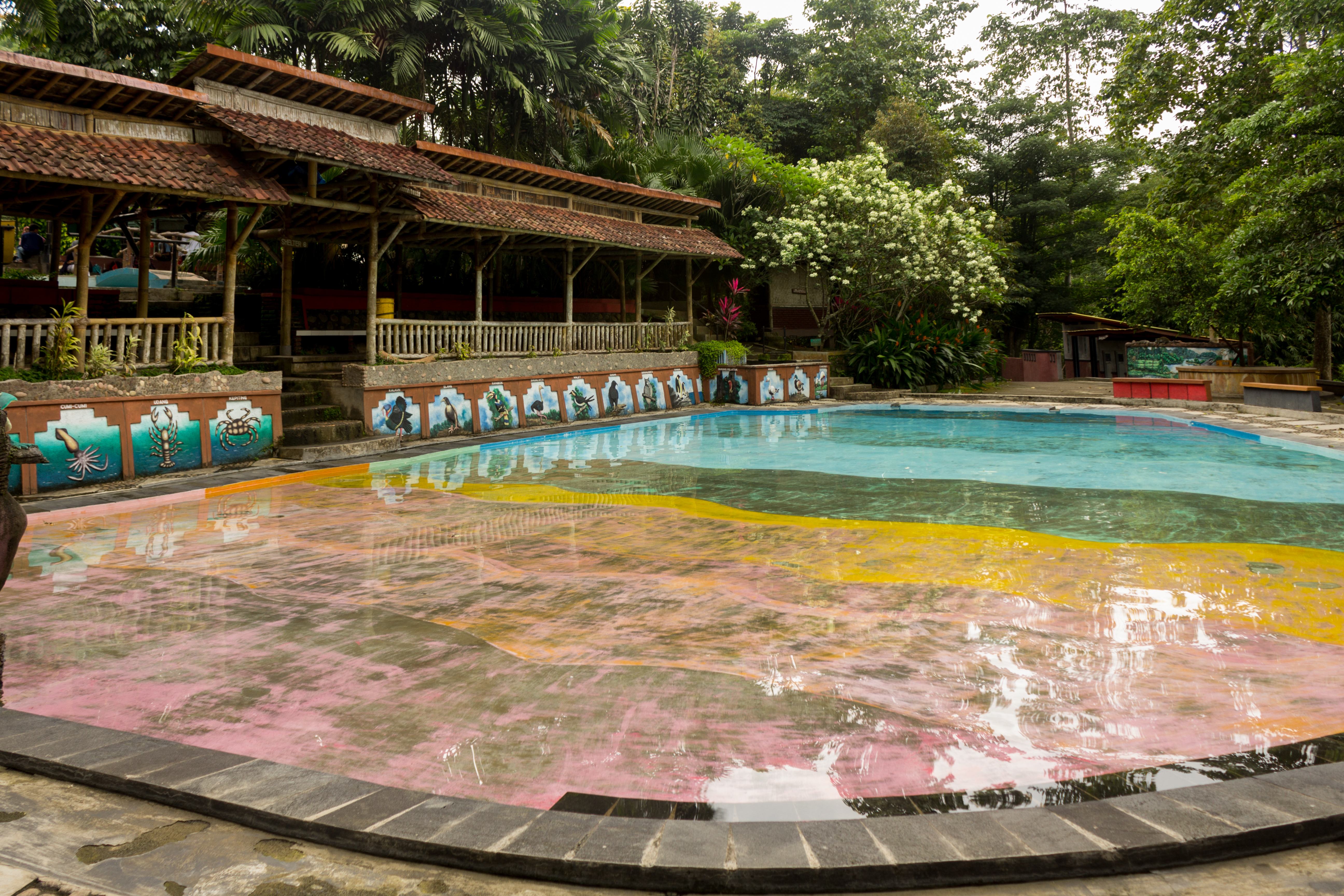 Pool at Sukorambi Botanical Garden, Jember